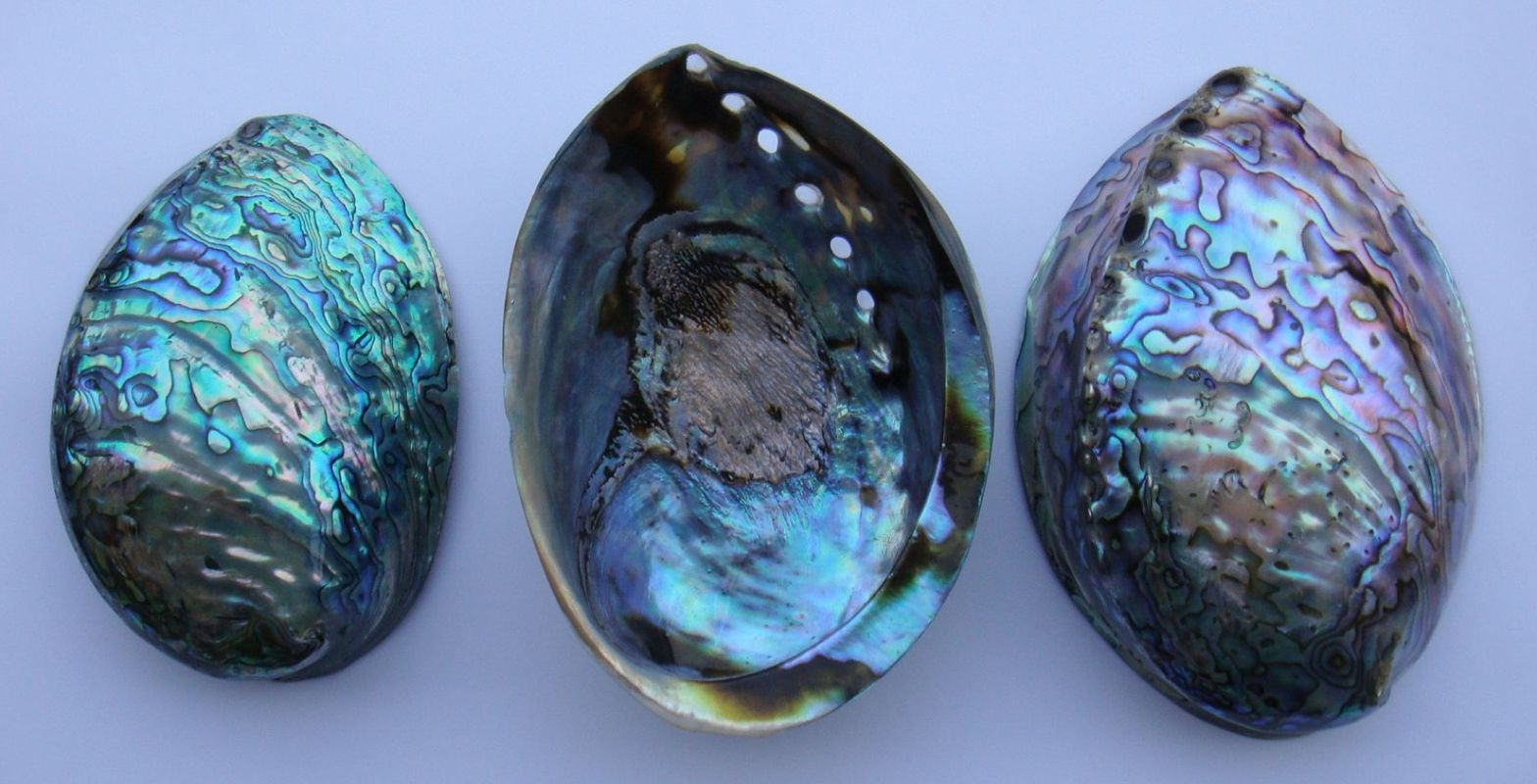 Blackfoot Paua shells sold in New Zealand.